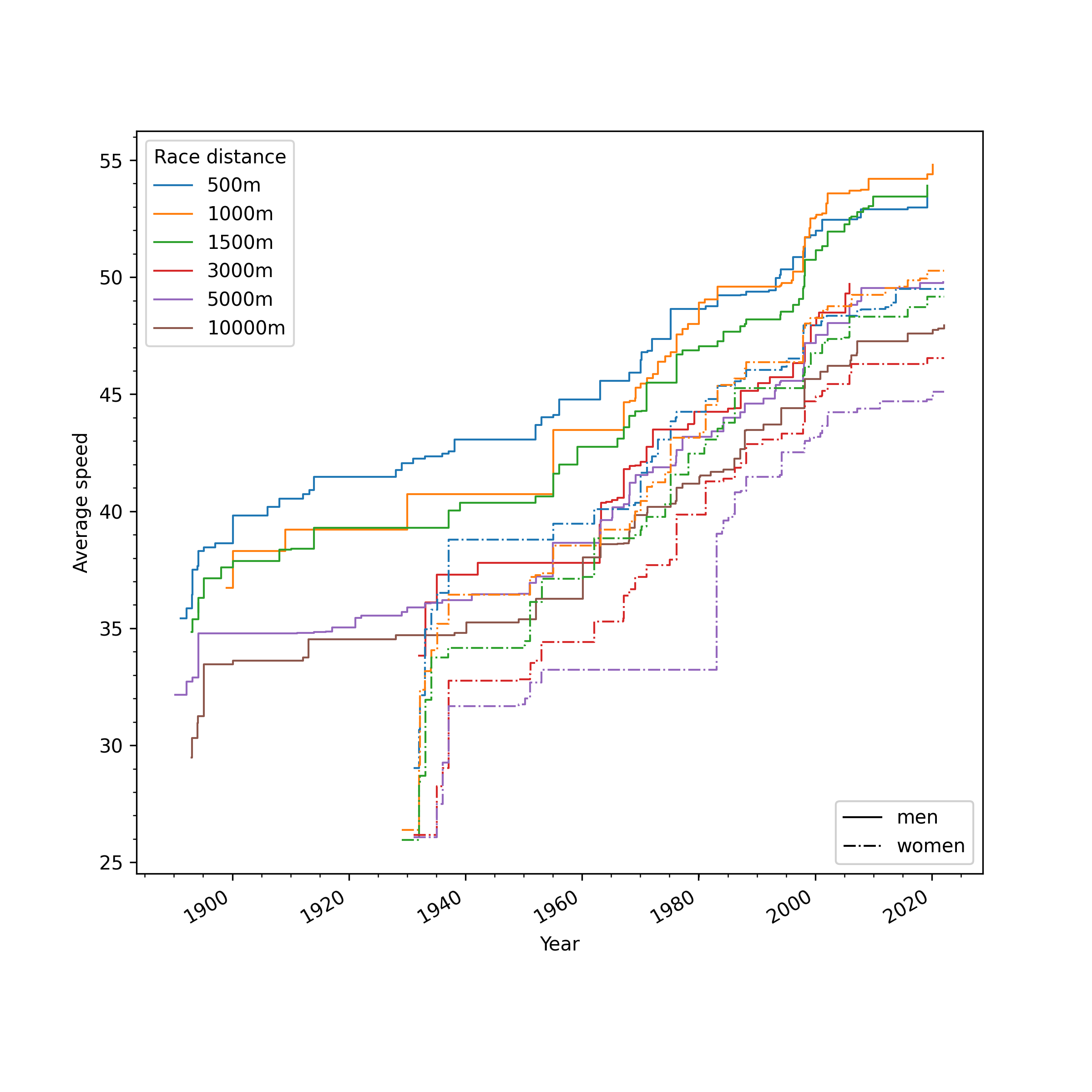 The progression of world records in speed skating, plotting average speed vs date for men and women's 500 m, 1000 m, 1500 m, 3000 m, 5000 m, and 10000 m events.